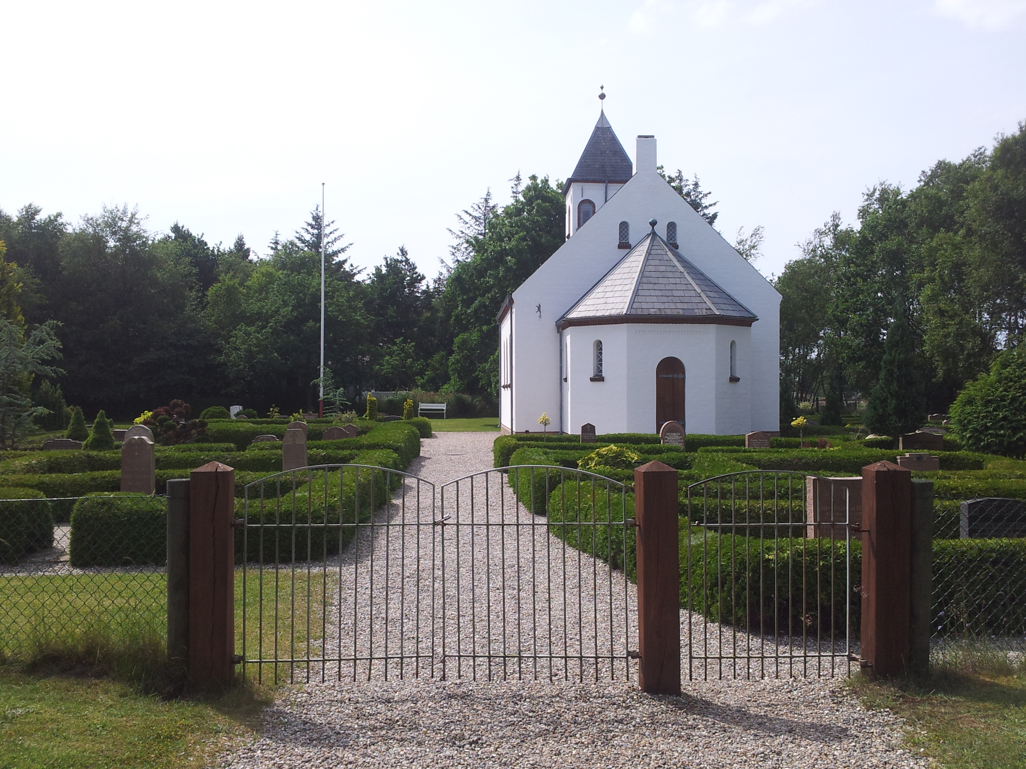 Picture of Børsmose Church and graveyard taken at the gate